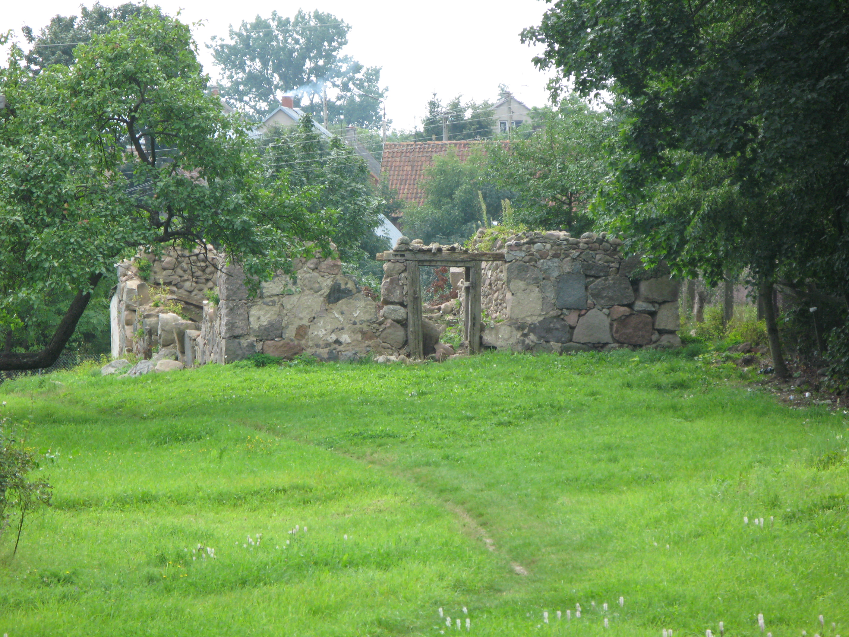 Ruins in Filipow, Poland, Suwalki region